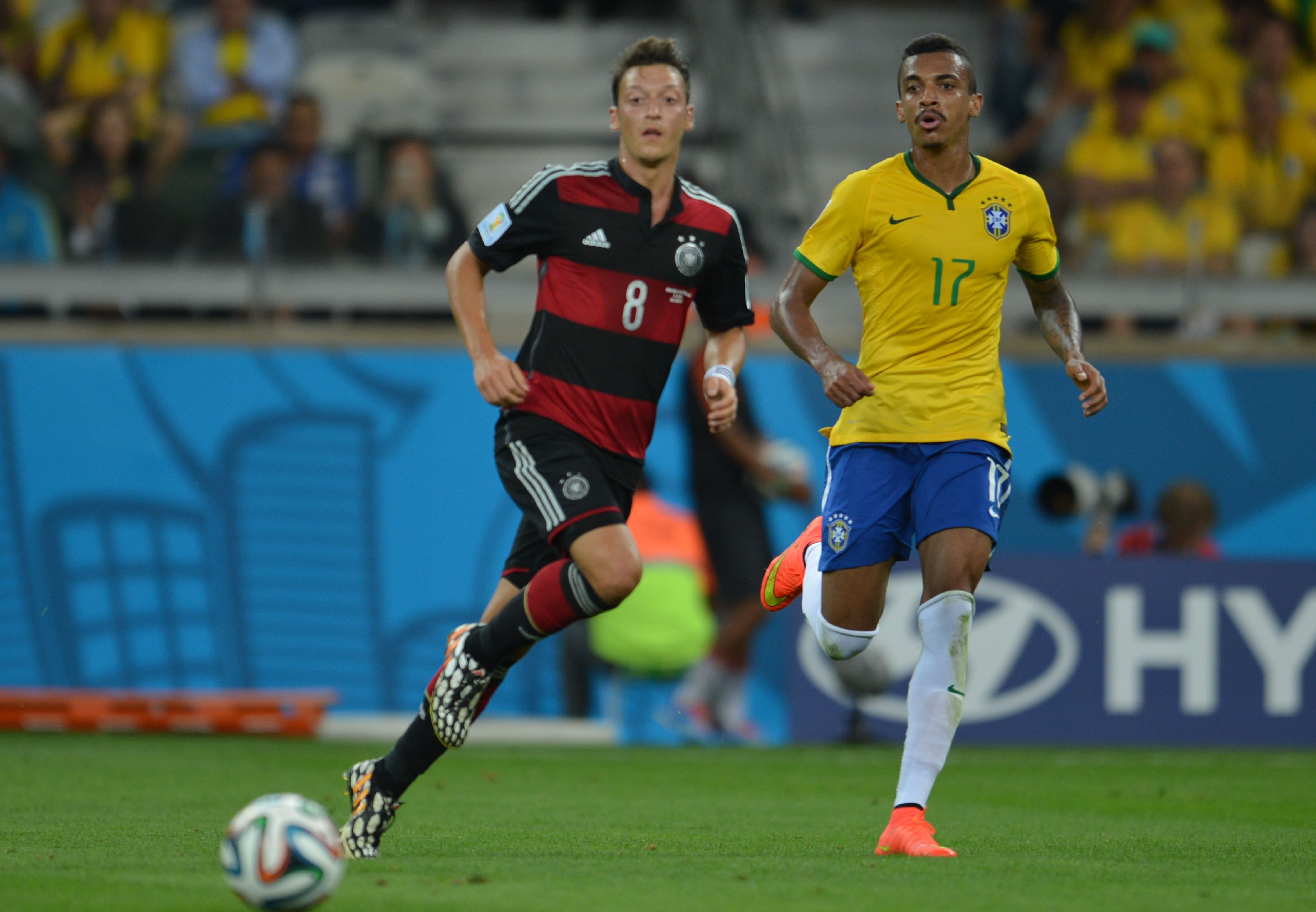 Brazil vs Germany, in Belo Horizonte